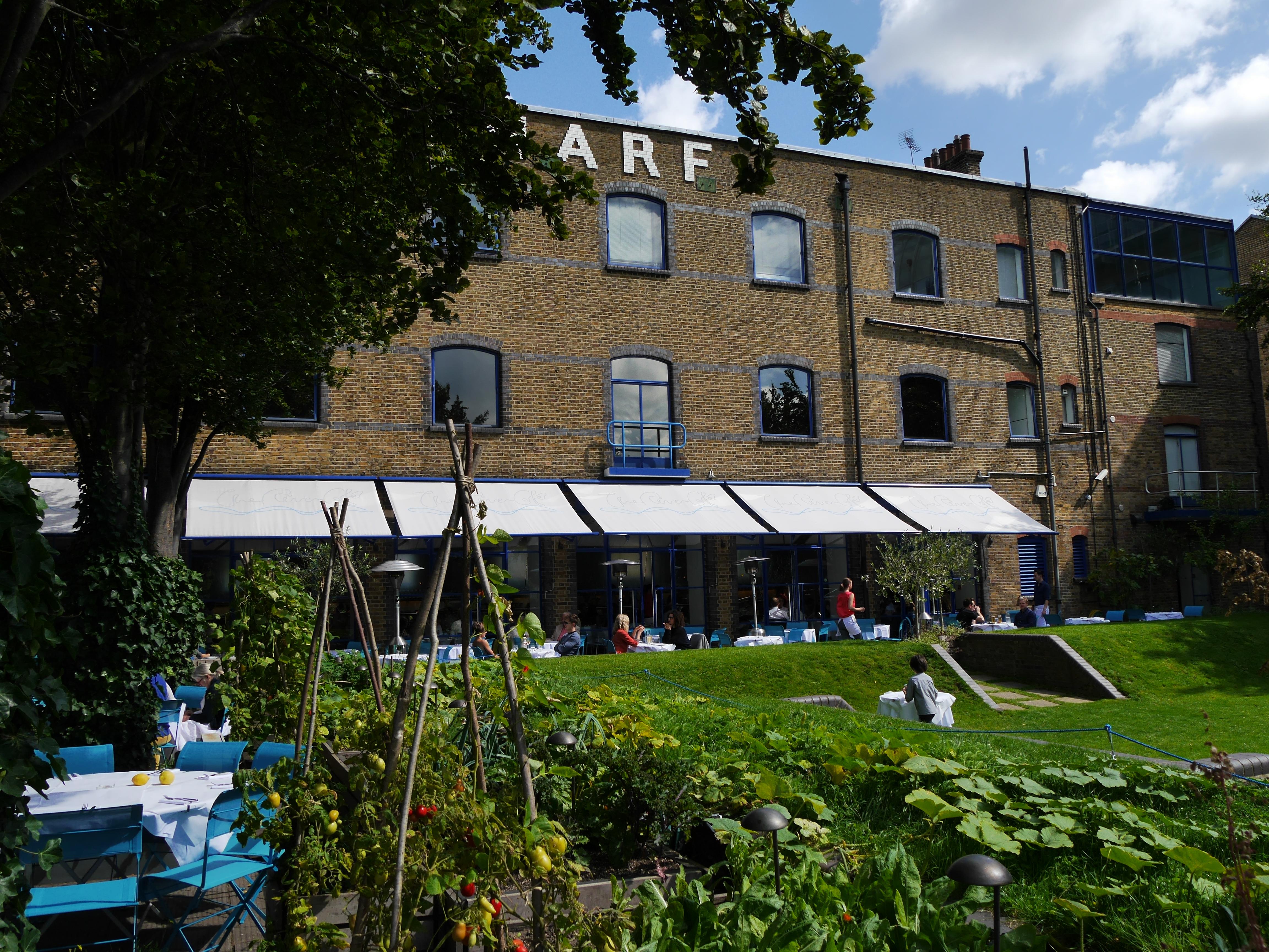 River Cafe, London